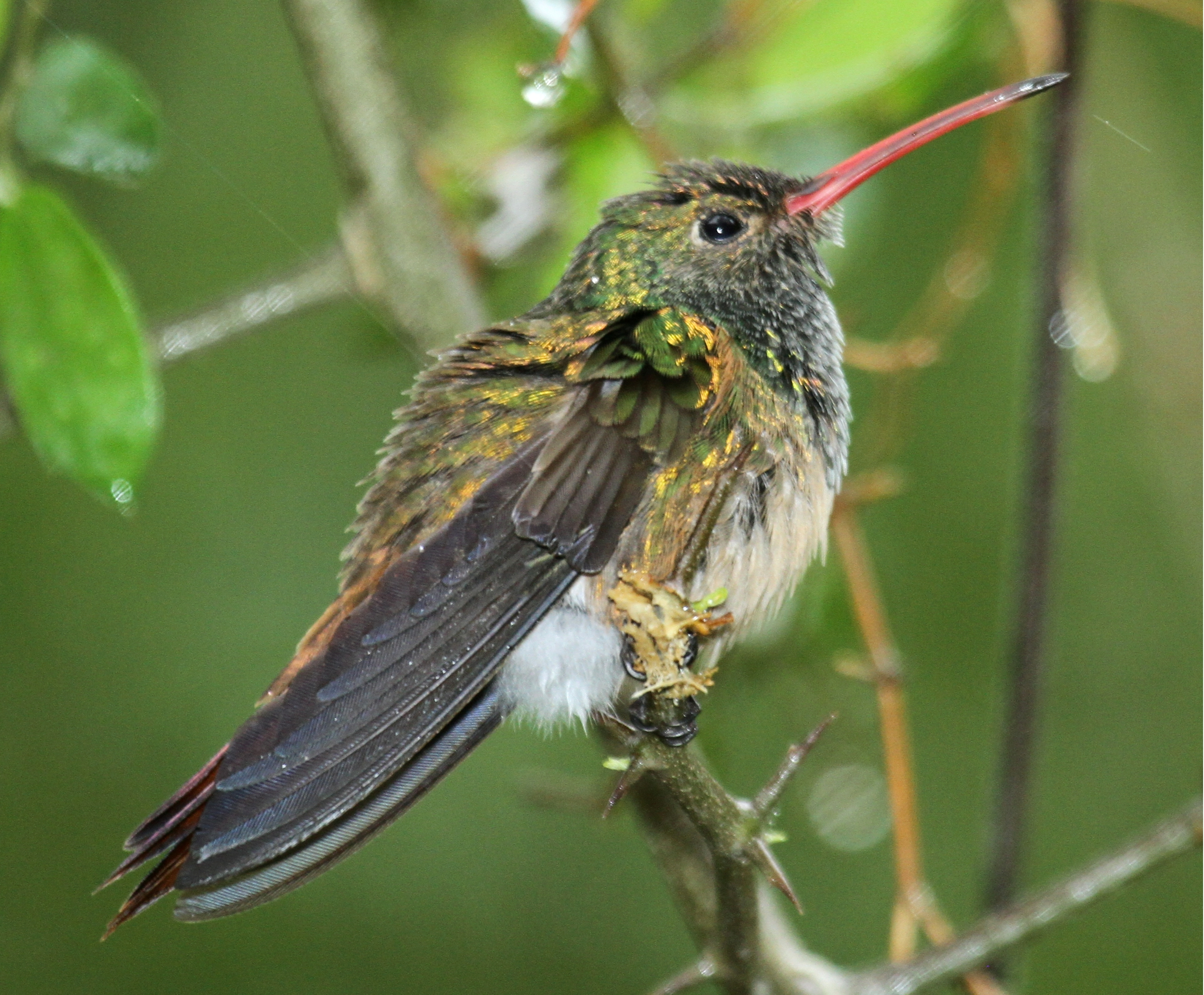 Sabal Palm Sanctuary - Texas